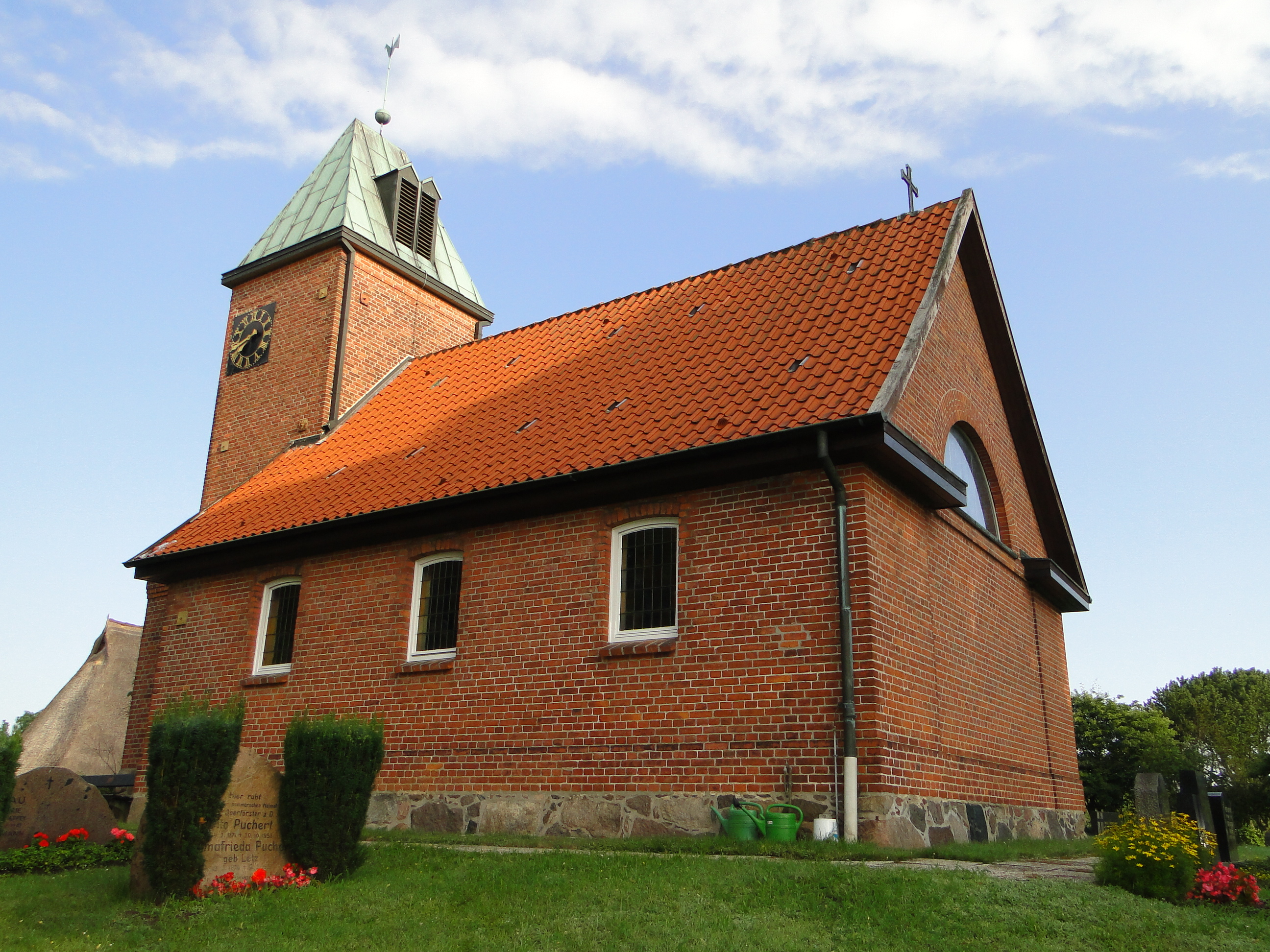 Church in Salem, disctrict Herzogtum Lauenburg, Schleswig-Holstein, Germany